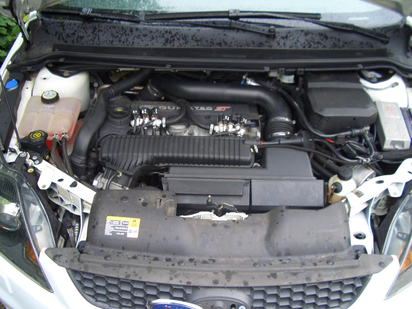 2.5 Litre Duratec ST engine (Focus ST)